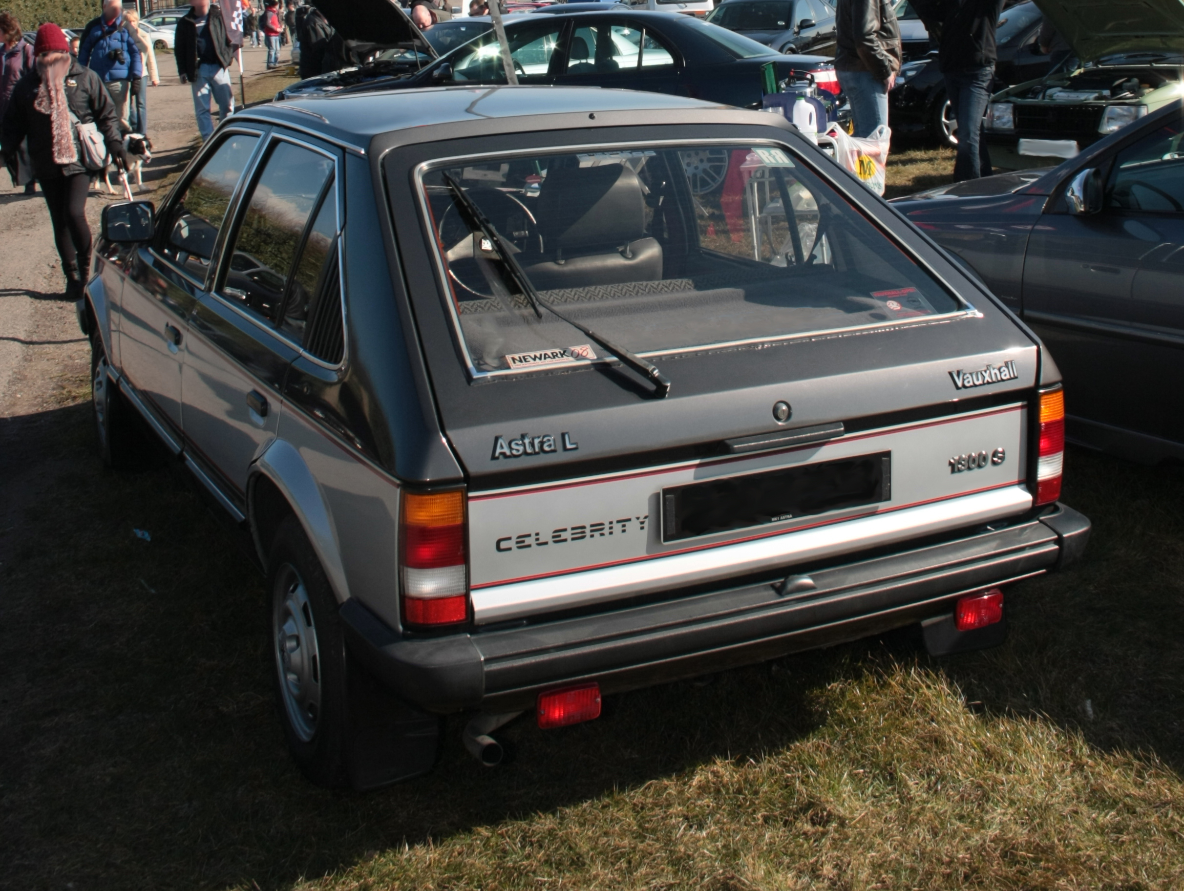 Vauxhall Astra 1300S L Celebrity special edition, 1984. At Donington, UK, March 2010